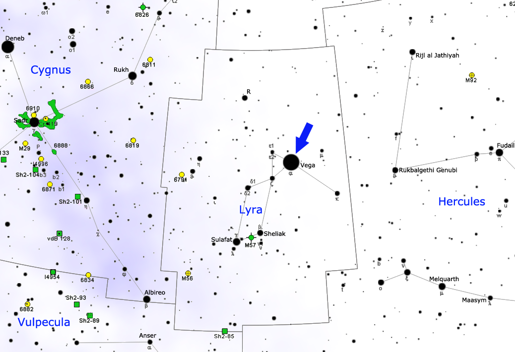 Map of Lyra with the position of star Vega